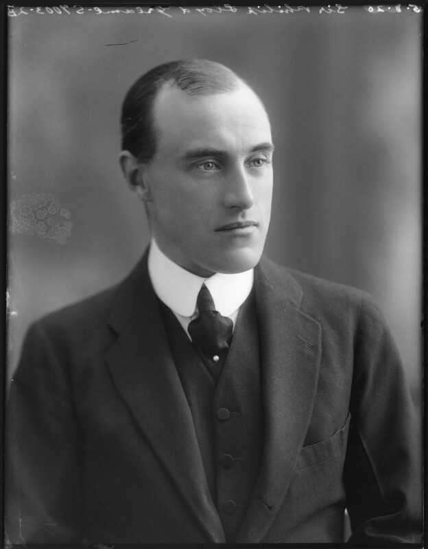 Lord Swinton